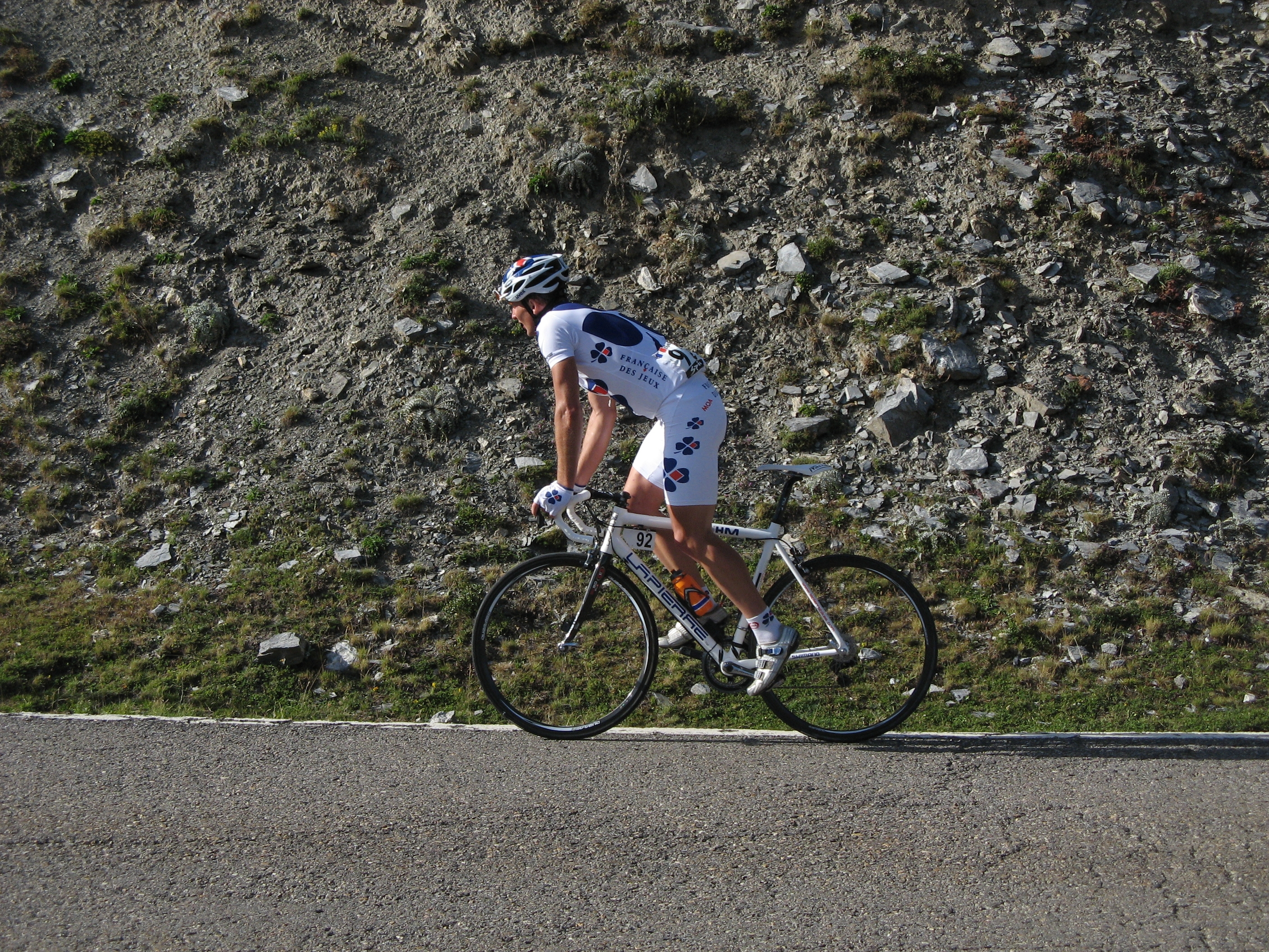 Mickaël Delage, 2008 Vuelta a España, 8th stage, Port de la Bonaigua, Spain.